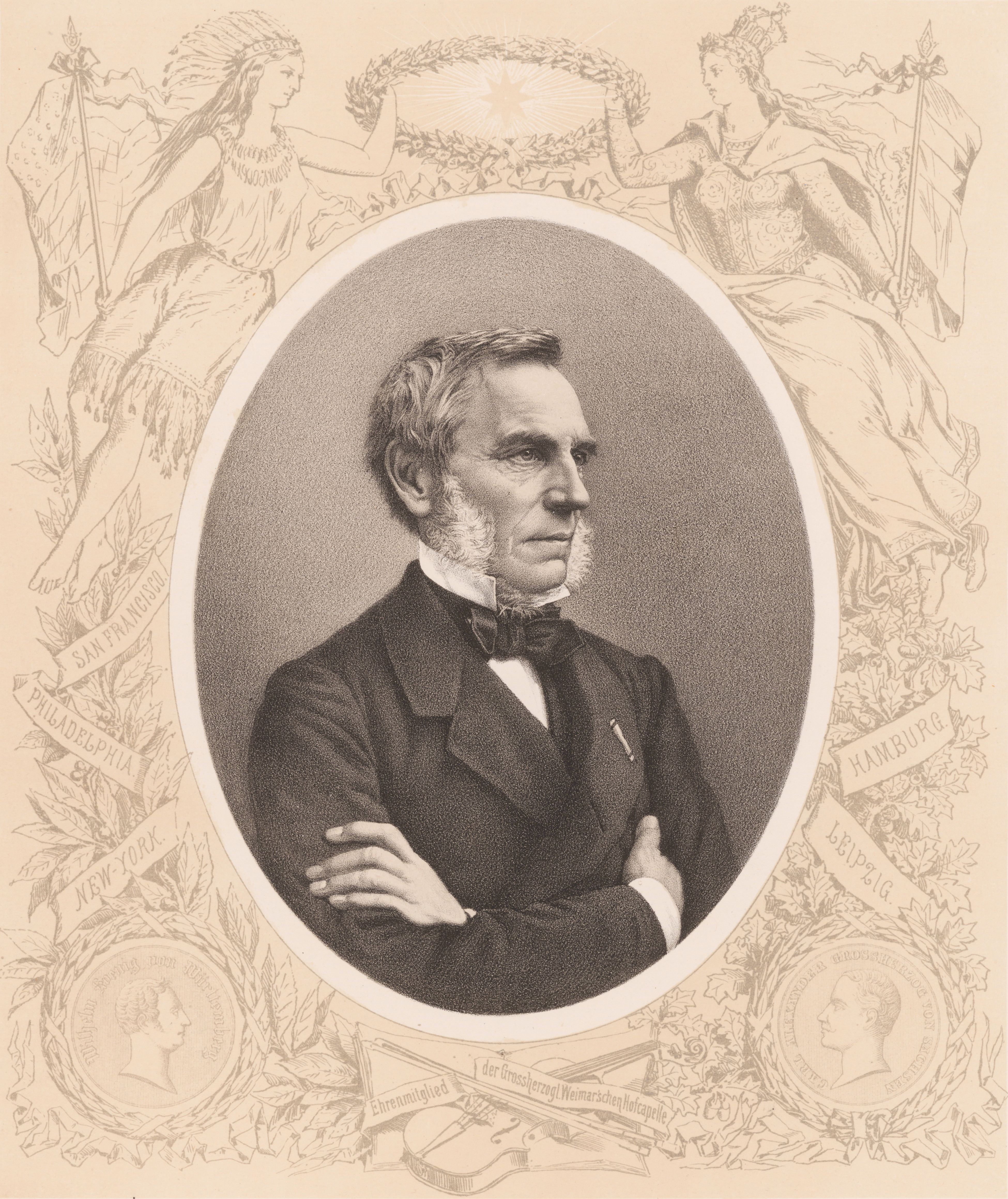 Depicted person: Julius Schuberth